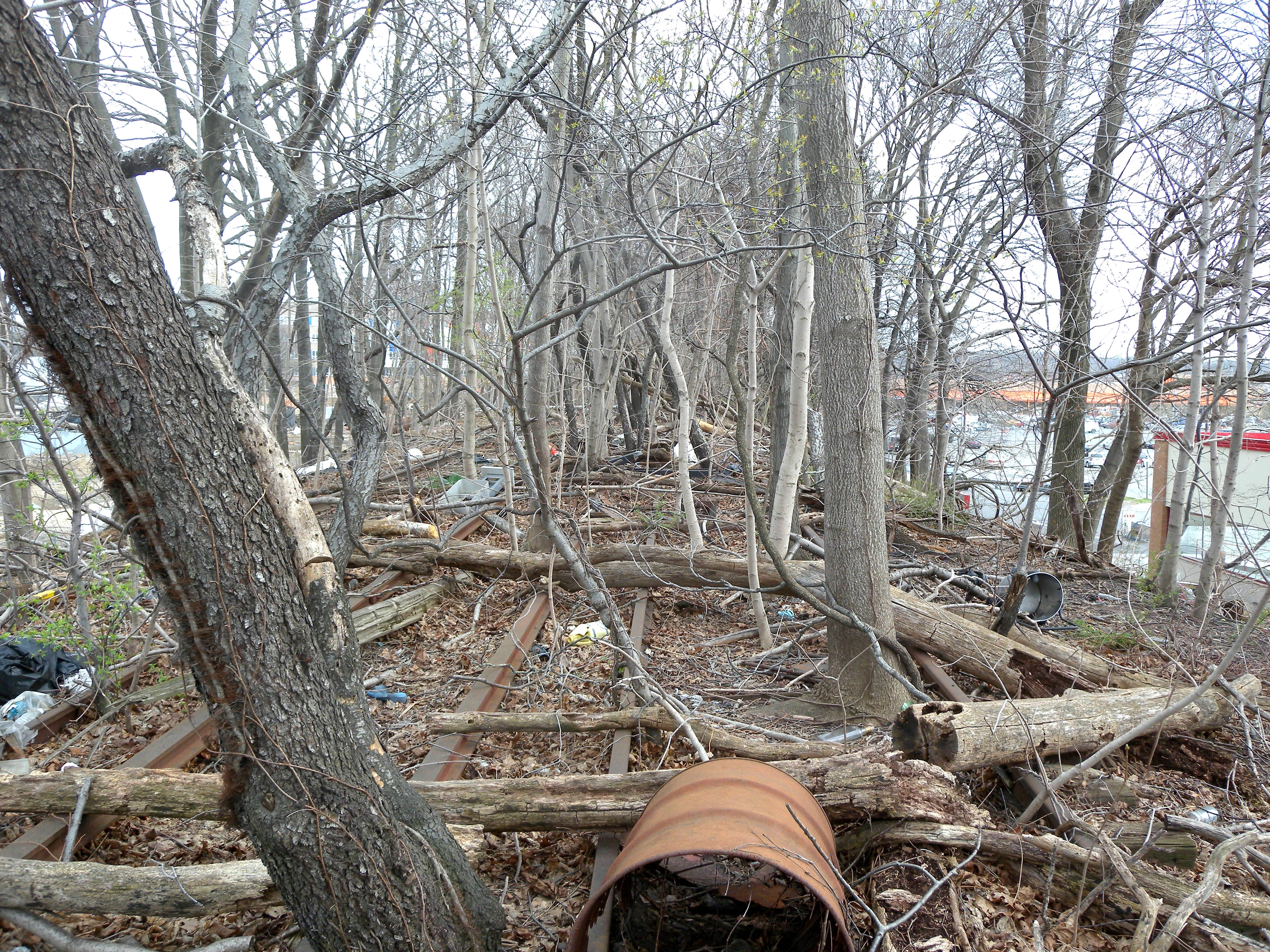 Looking south along Rockaway Beach Branch passing over Metropolitan Avenue, former site of a station, on a cloudy afternoon.